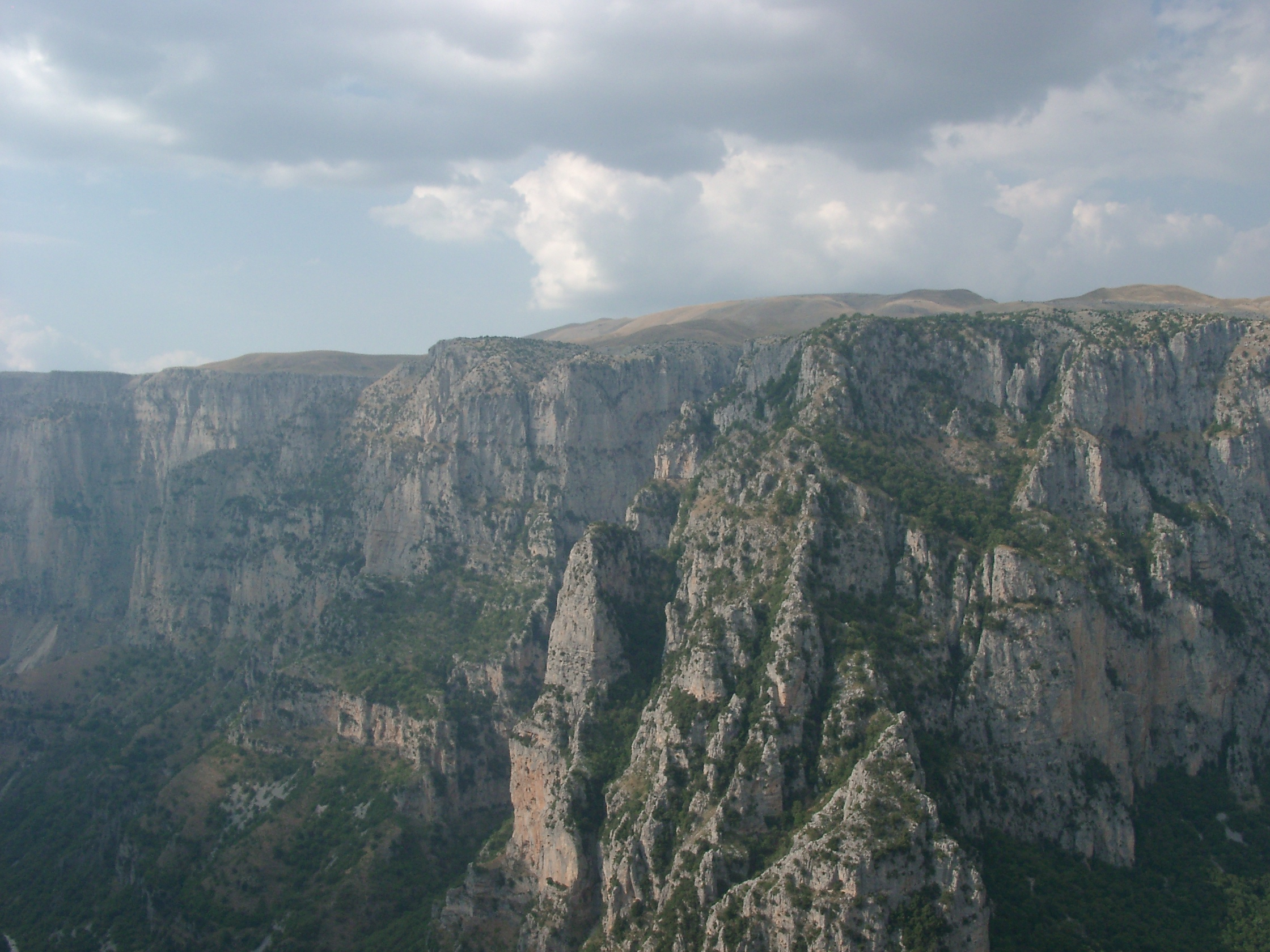 Vikos Gorge, Epirus, Greece